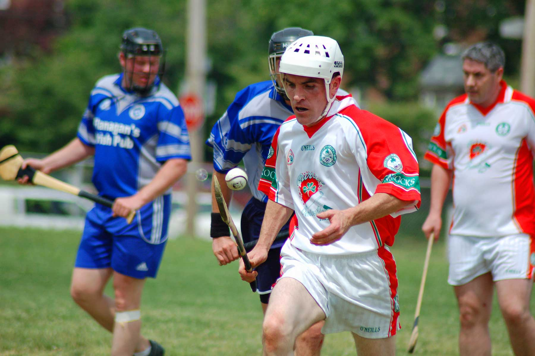 A game of hurling, DC Gaels versus Shamrocks. Taken at the Gaelic Games, Cardinal Dougherty High School field, Philadelphia, USA.